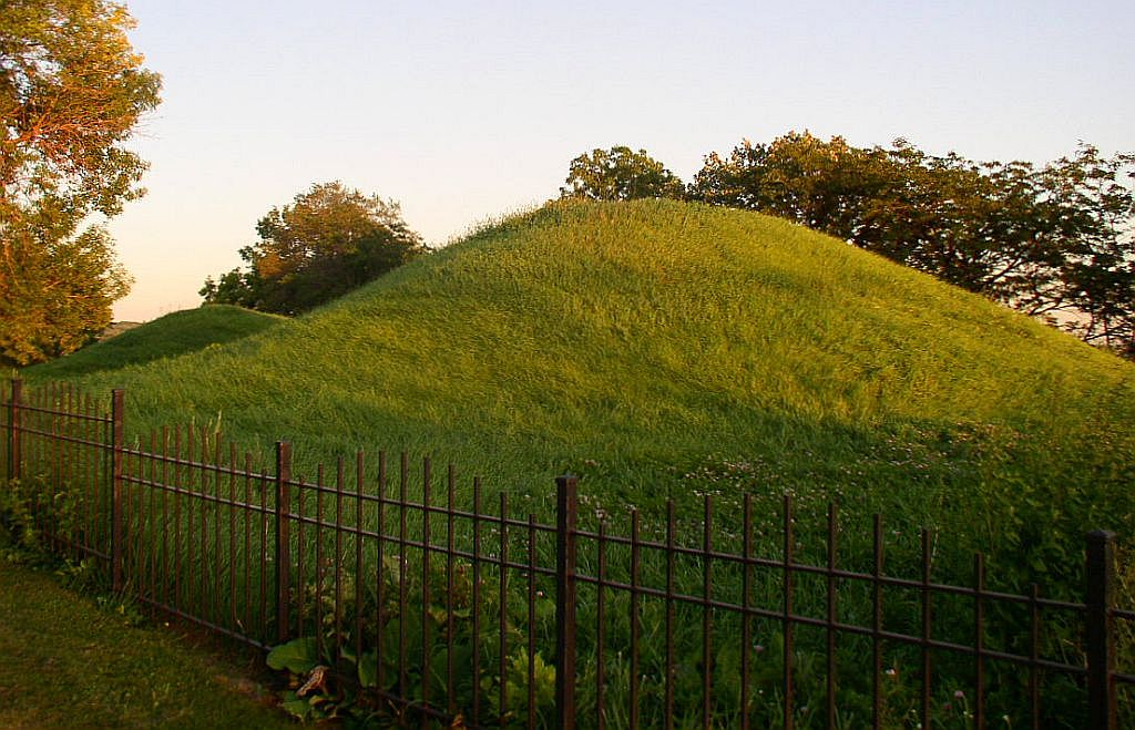 Two prehistoric Native American burial mounds in Indian Mounds Regional Park, St Paul, MN, USA.